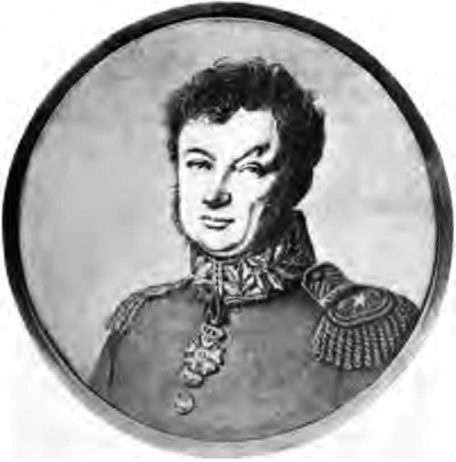 General Pierre Cambronne, 1816